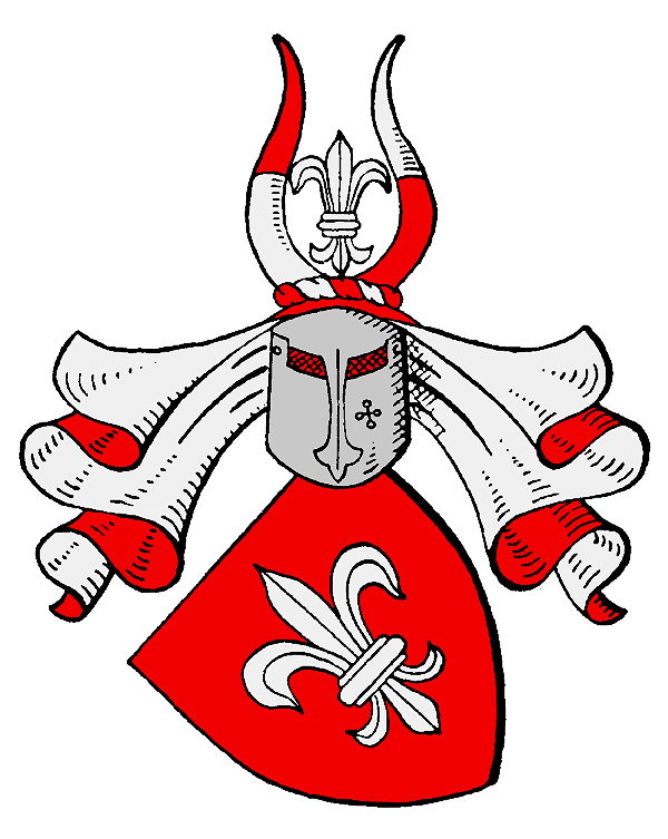 Coat of arms of the Schack familiy (Niedersachsen branch)